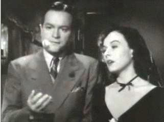 Cropped screenshot of Bob Hope and Paulette Goddard from the trailer for the film The Ghost Breakers.